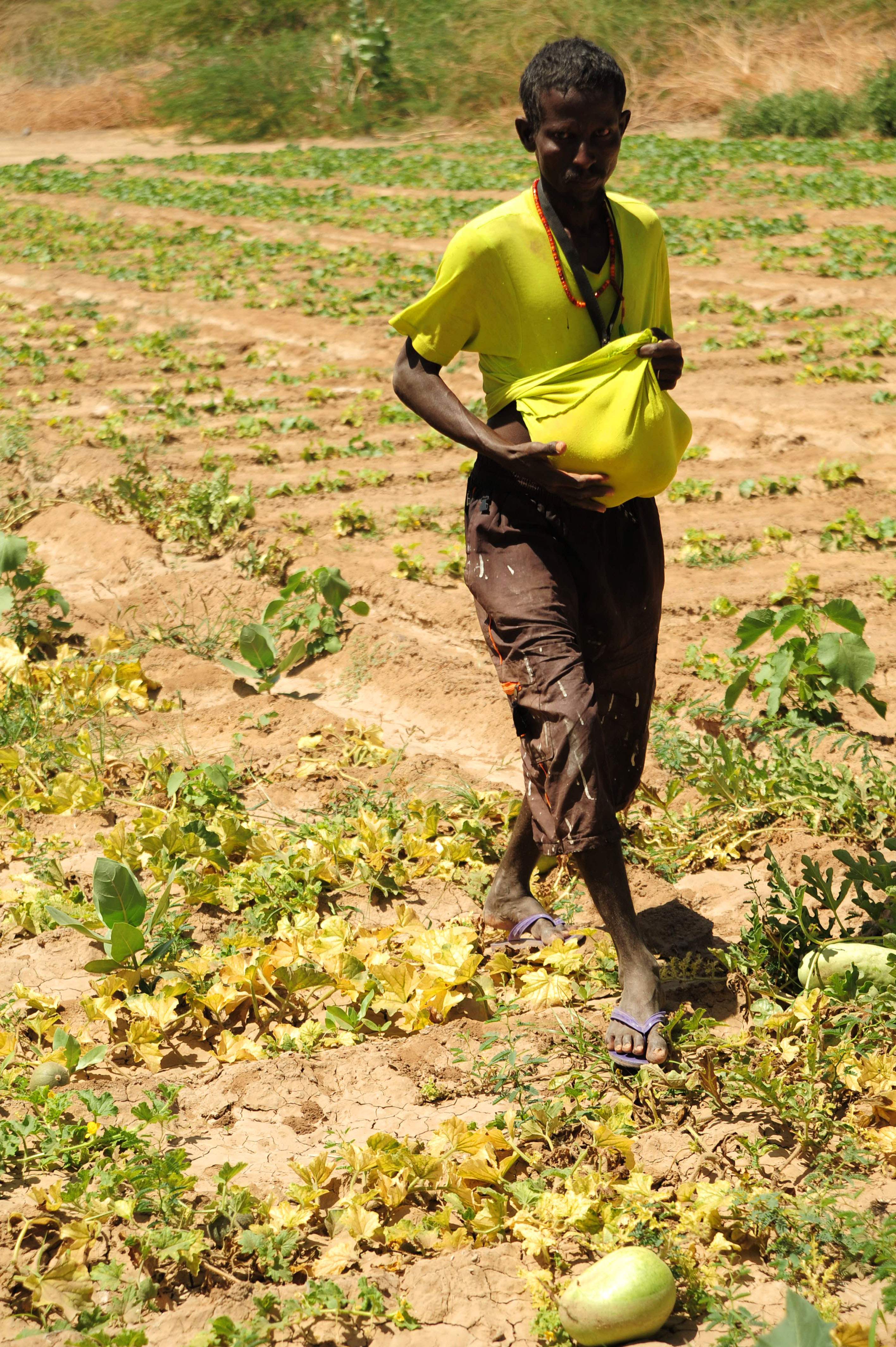 Mohammed Ibrihim picks fruit near Dikhil, Djibouti, Feb. 20, 2009, for U.S. service members assigned to the 775th Engineering Detachment. The Soldiers are drilling a well to provide potable water to Ibrihim's village and fields as part of a mission in support of Combined Joint Task Force – Horn of Africa.